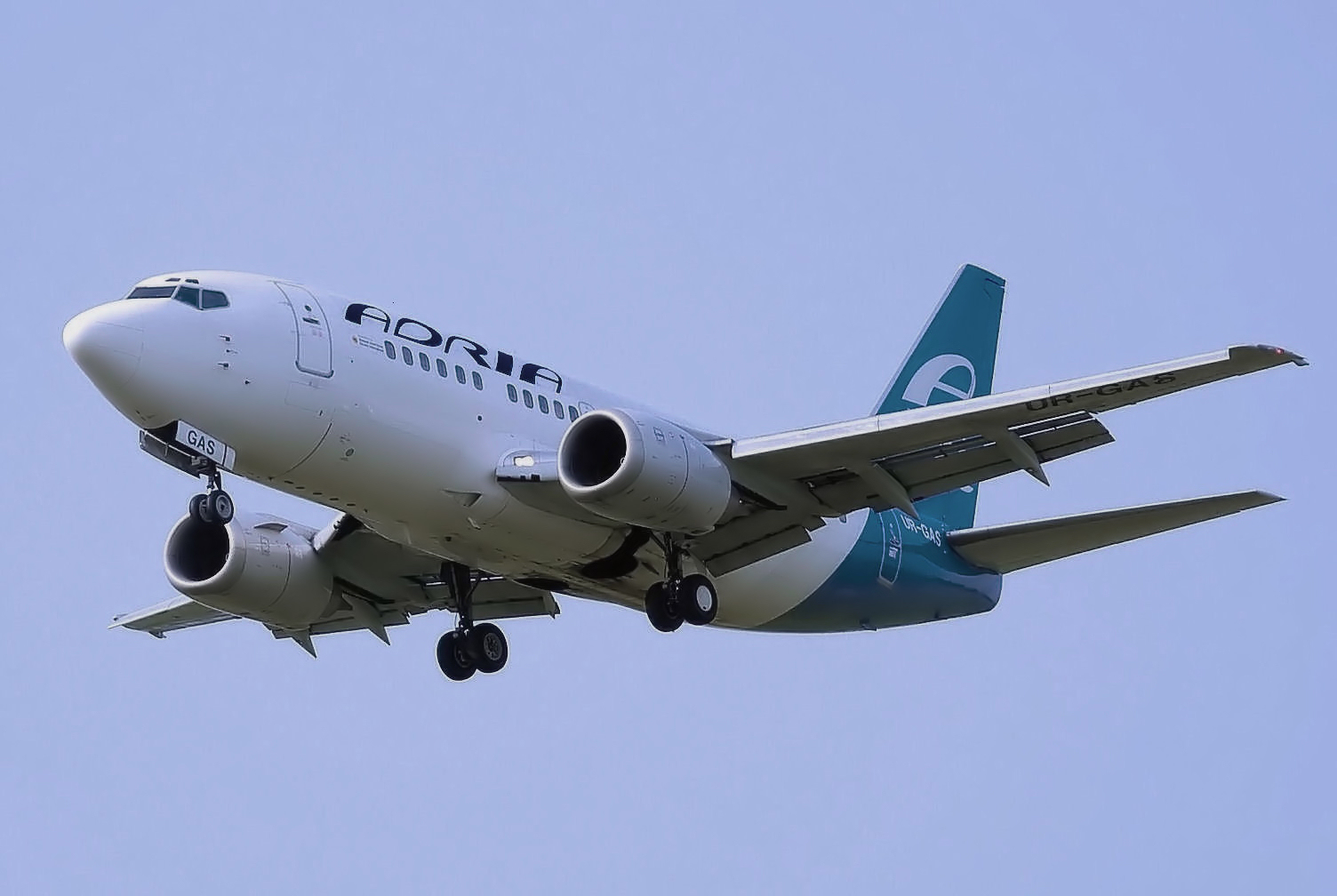 Adria Airways Boeing 737-500 (UR-GAS) landing at London Gatwick Airport, England.